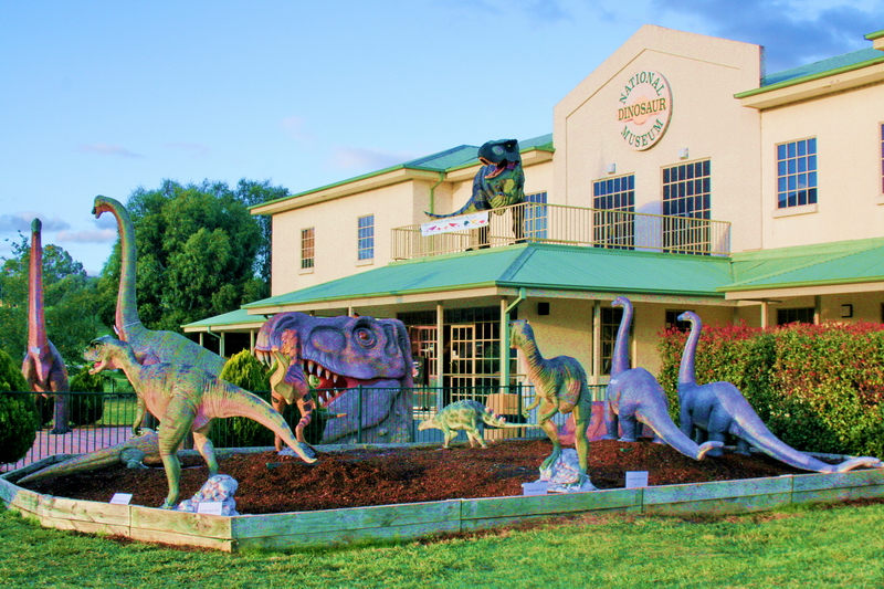 A recent photograph of the National Dinosaur Museum entrance. Visible are the various life-sized model dinosaurs scattered around the front of the museum.